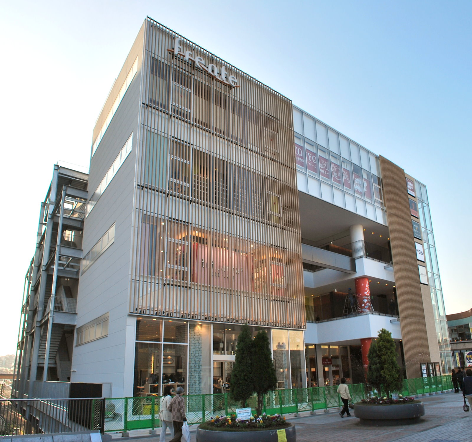 Frente Minami-Osawa